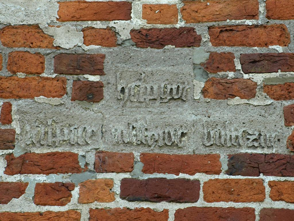 Haselau - Schleswig-Holstein (Germany), church, inscribtion on the northern wall , photo 2009